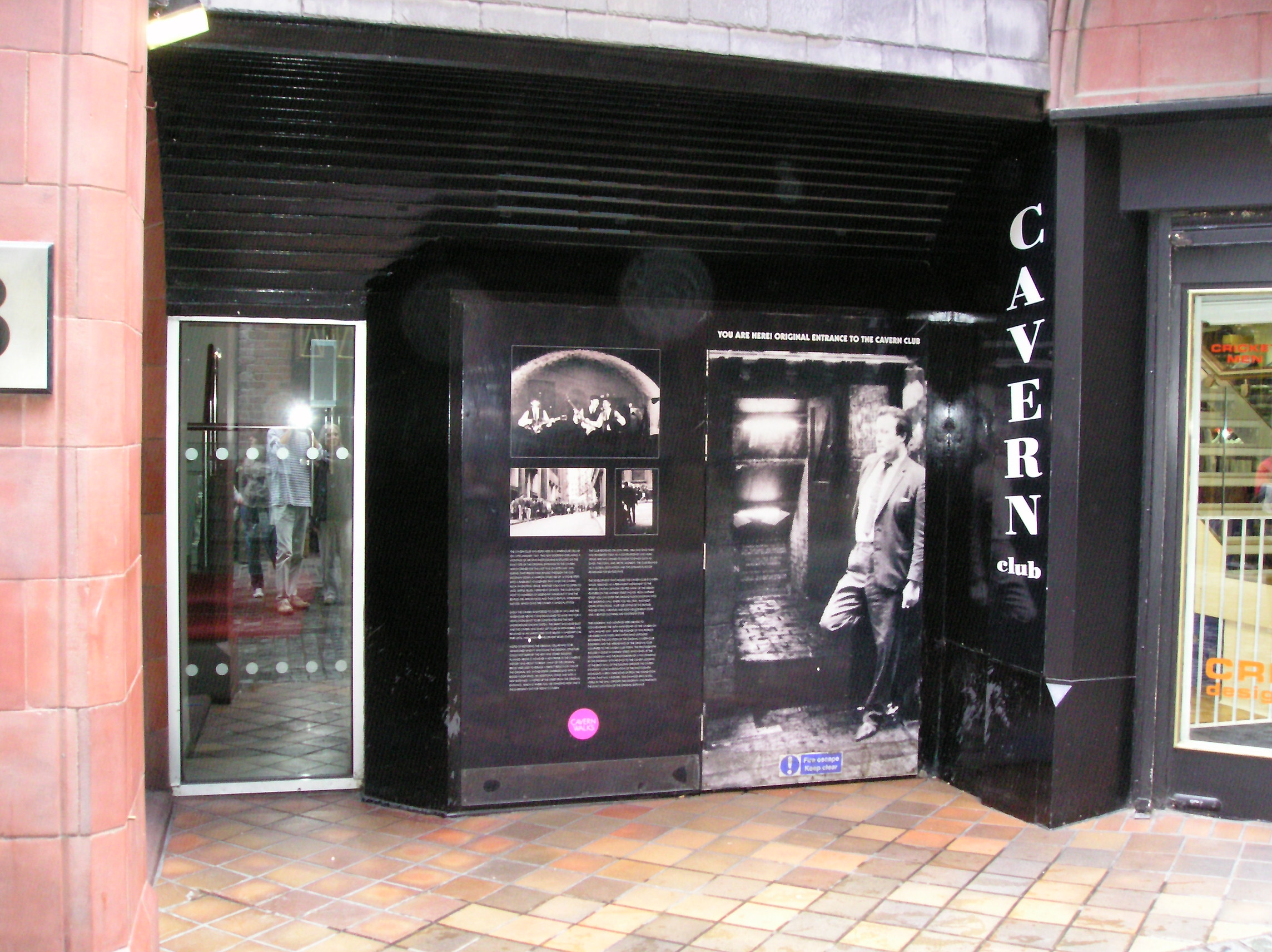 This is the original entrance of the Cavern Club, Mathew Street, Liverpool, in a warehouse cellar, openened on the 16th January 1957, closed on 27th May 1973 because of the new Metro.